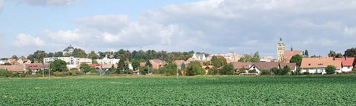 Panoramic view of Chlumec nad Cidlinou town, Czech Republic